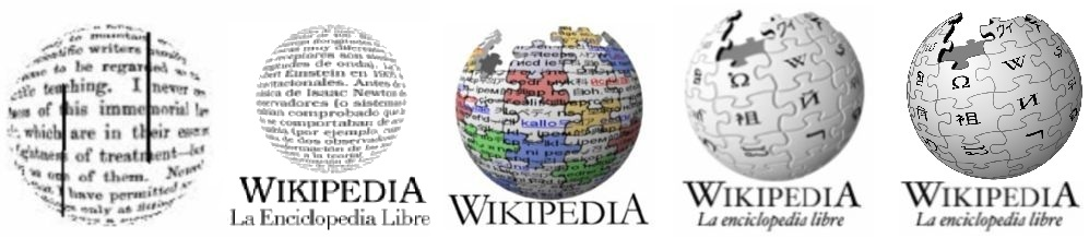 Successive Wikipedia logos until May 2010.